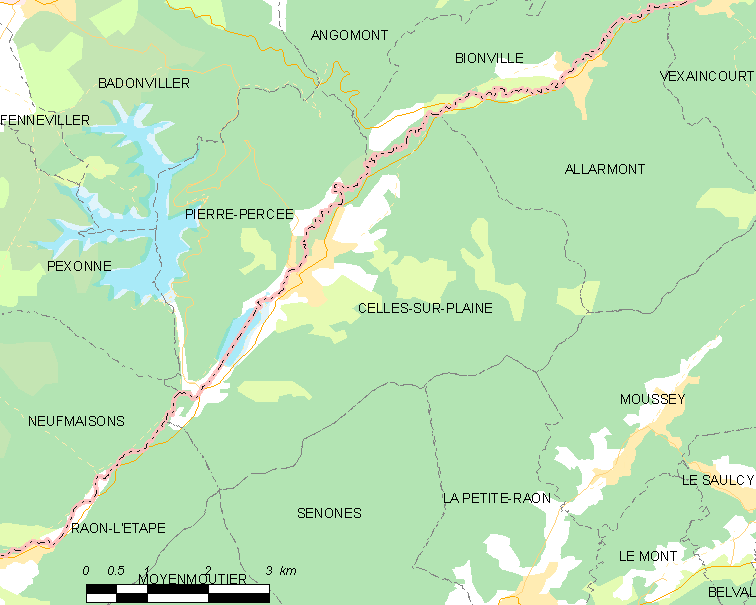 Map of French municipality Celles-sur-Plaine